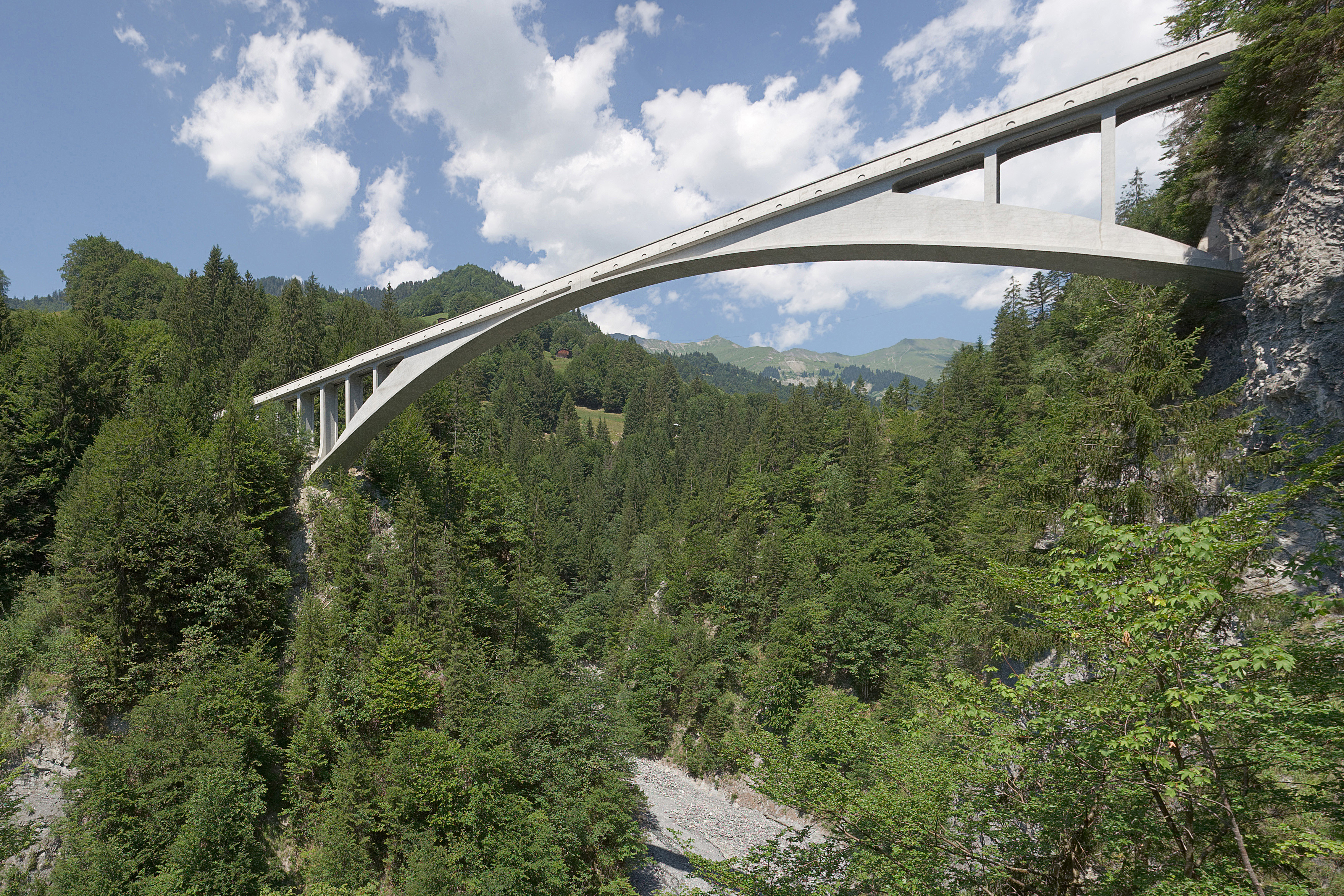 Salginatobel Bridge near Schiers, Switzerland. View from southeast.